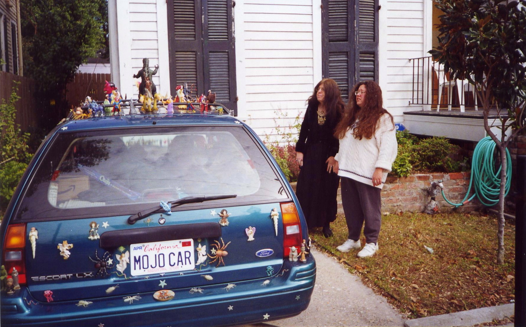 "MOJO CAR" art car. Owner cat yronwode at center in black. Photo by Infrogmation, Jan 2001 Page about "Mojo car": [1]